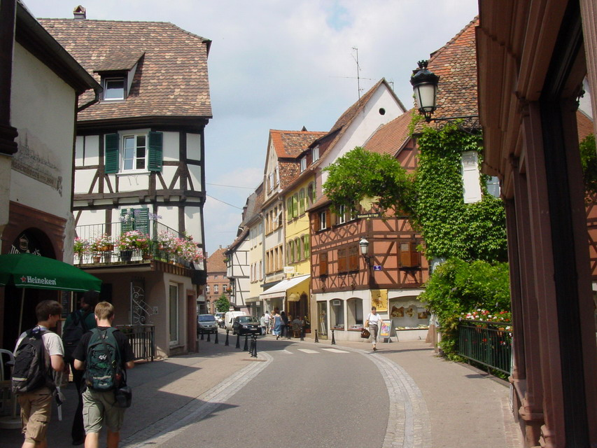 Wissembourg, author Stako, June 2003